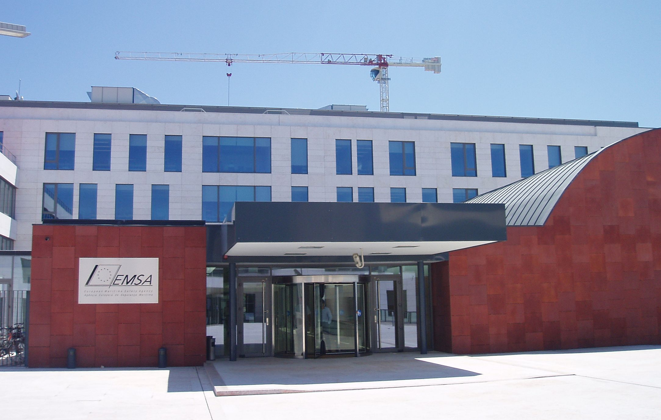 European Maritime Safety Agency (EMSA) building in Lisbon, Portugal. (Original source, i.e. jpg-file has been rotated 2.1 deg. + cropping.)